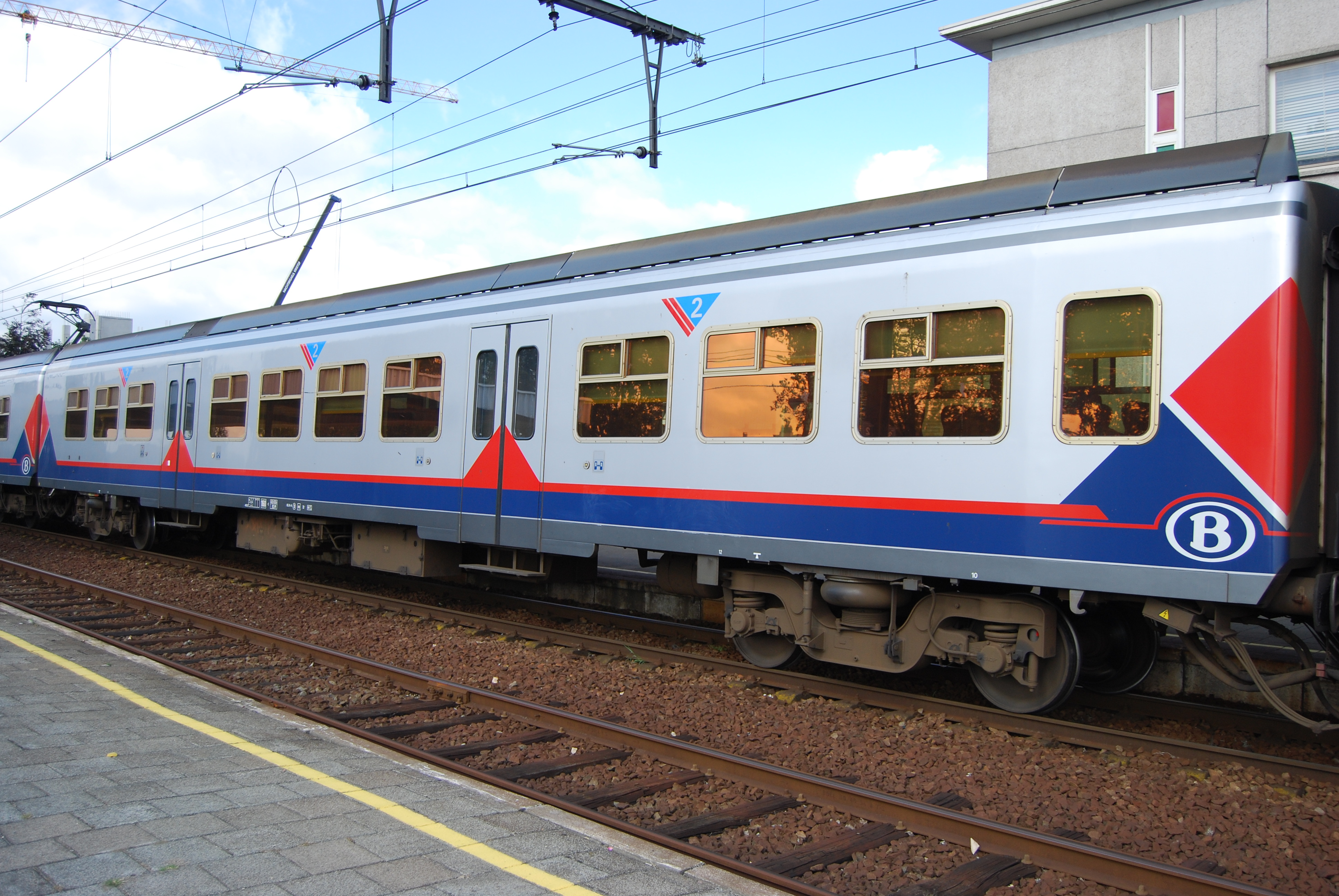 MS 80 Break